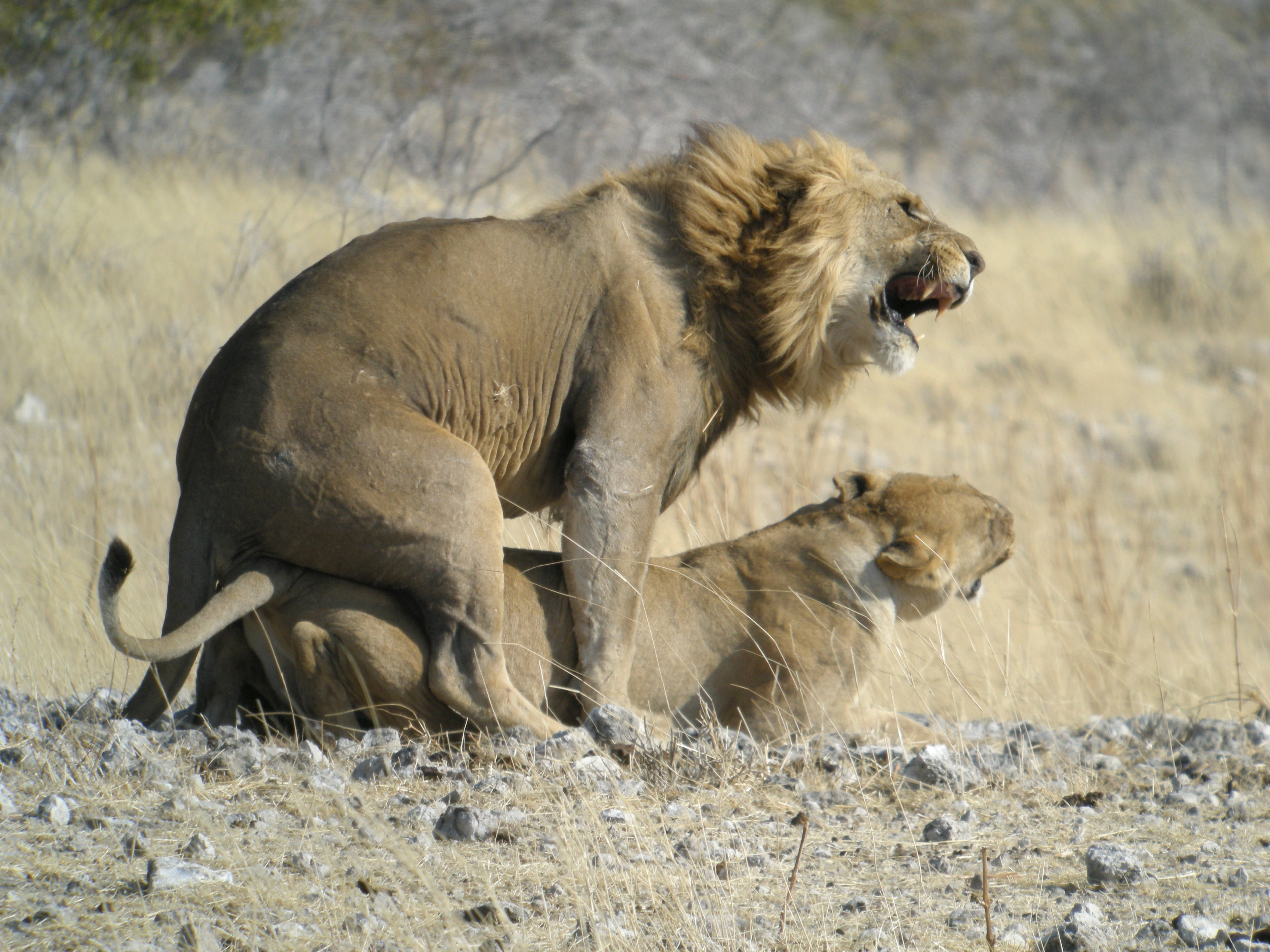 Digiscoping with Swarovski ATM 80 HD 30 X, Coolpix P5100 (Adapter DCB)